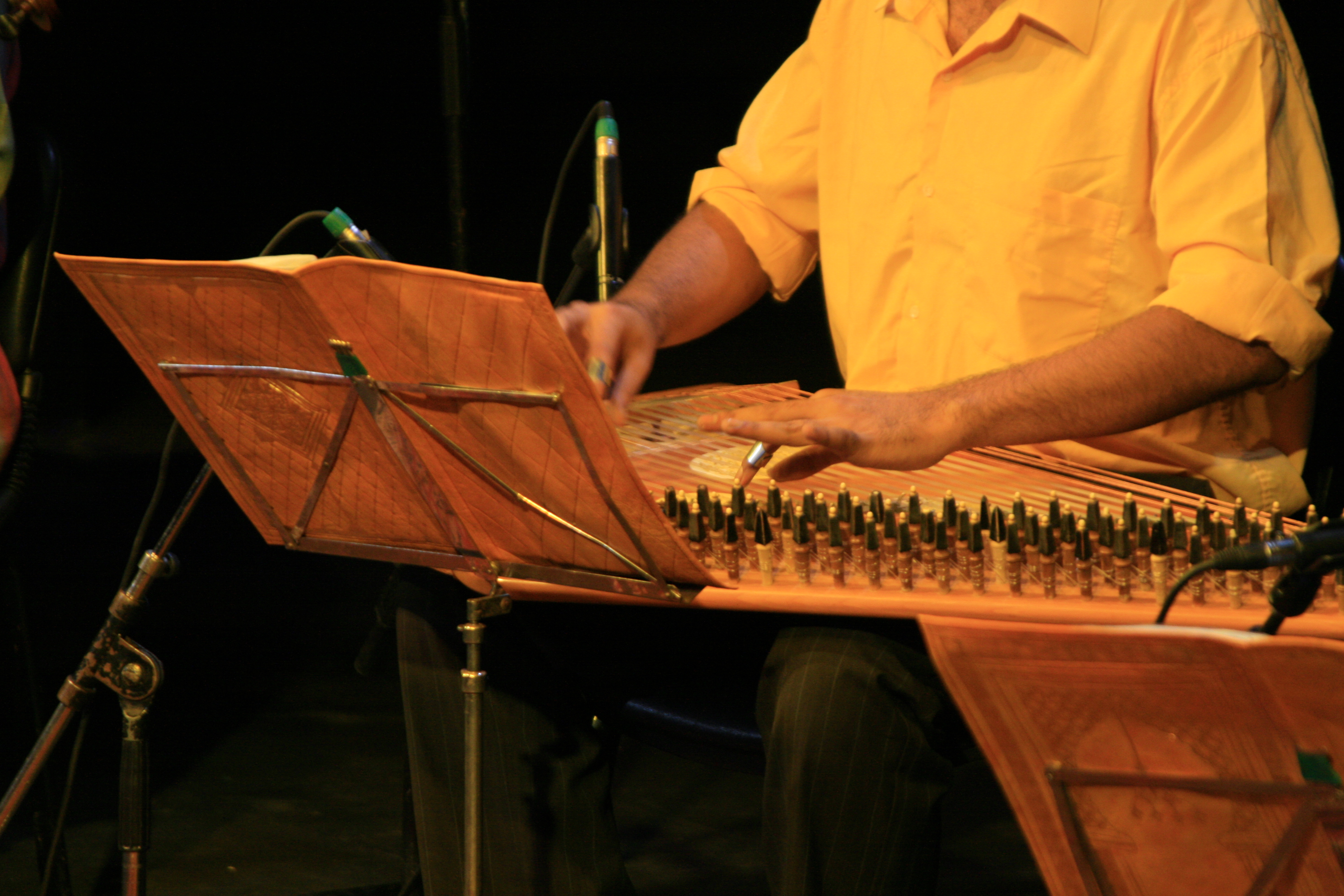 Qithara - Classical Arabic Music